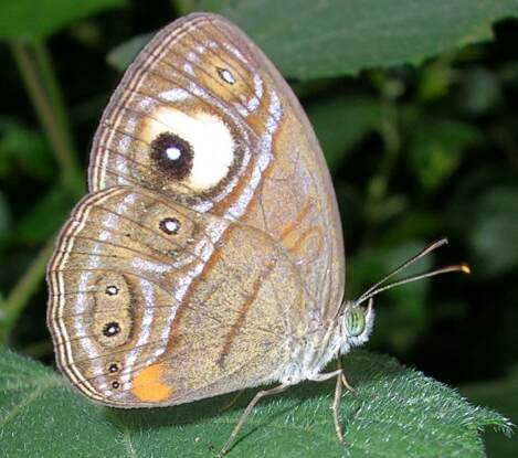 Gladeye Bushbrown butterfly Mycalesis patnia in Wynaad